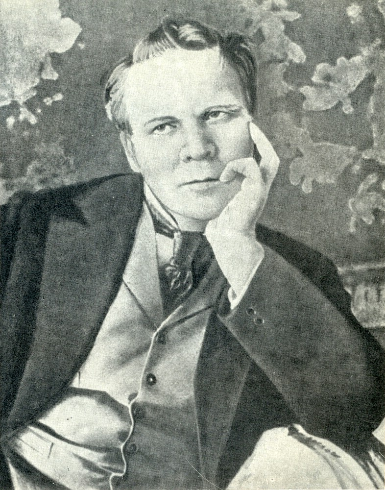 Russian bass, Feodor Chaliapin (1873 - 1938)